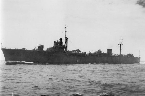 IJN Ashizuri-class oiler SHIOYA, off Nagasaki.